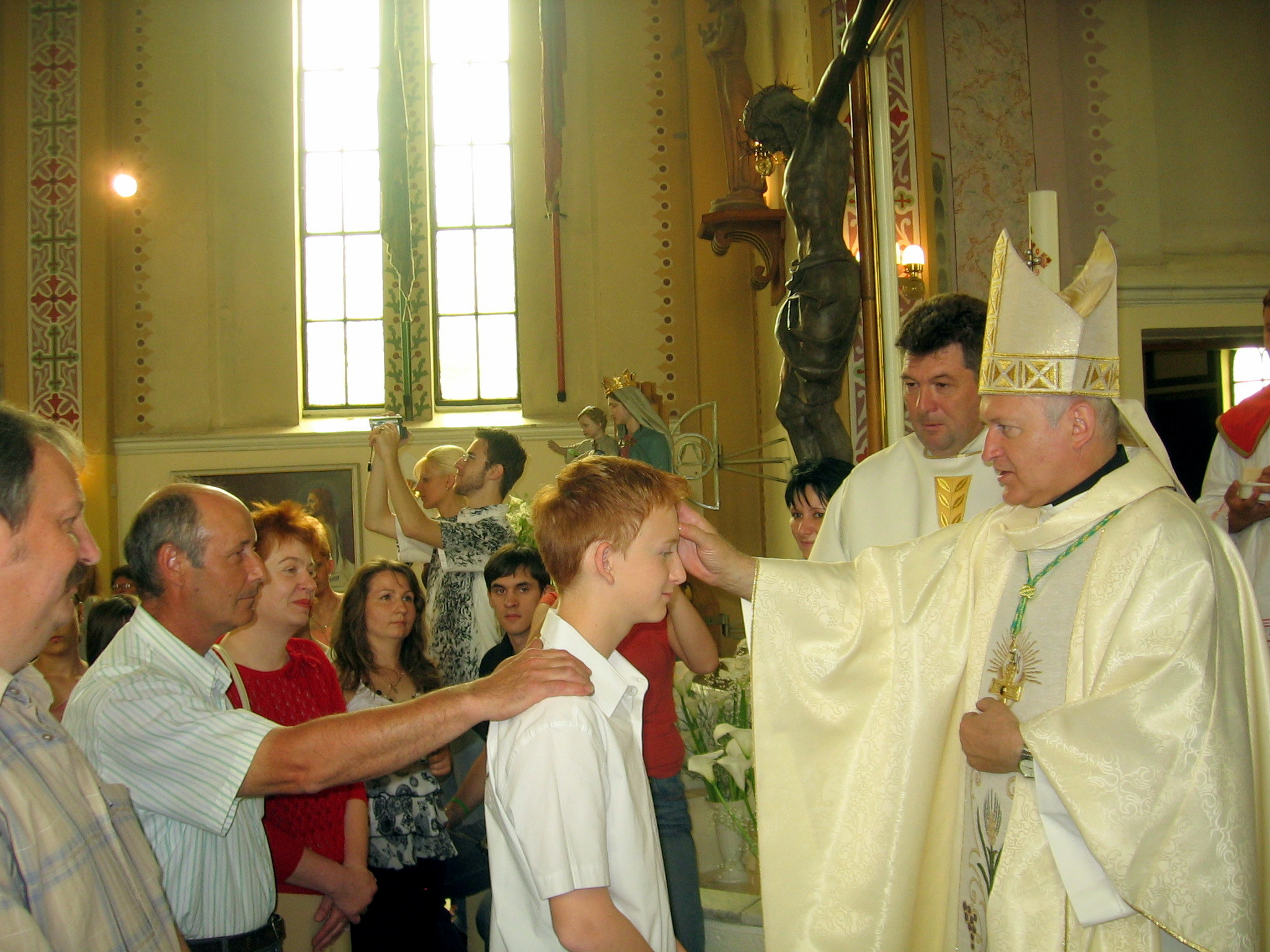 Bishop Német gives confirmation to Szilárd